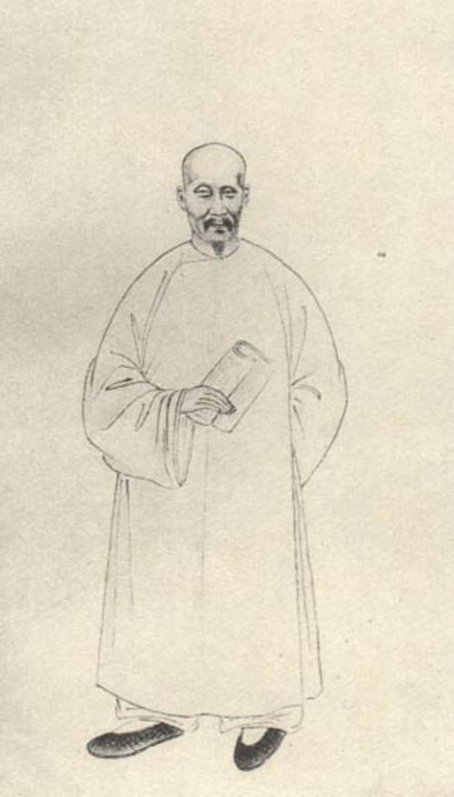 LI Baoxun, poet and scholar of the late Qing Dynasty.